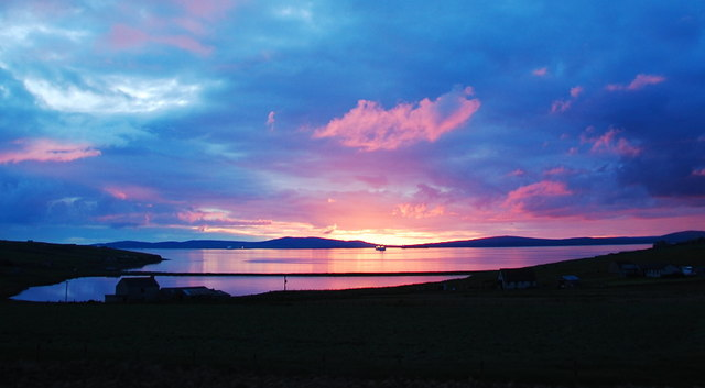 Echna Loch Sunset The view from my living room window. Echna Loch with Scapa Flow beyond.